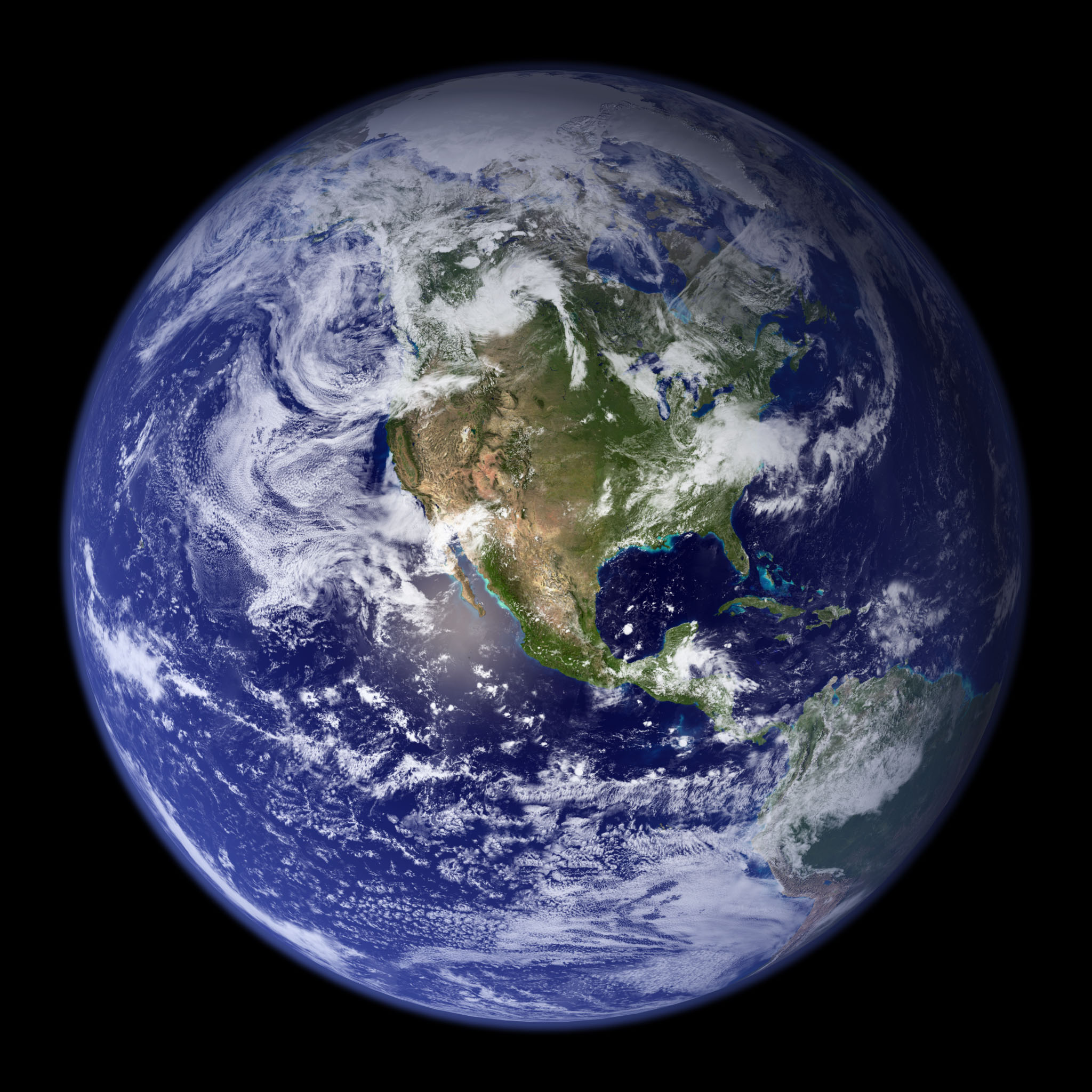 “Blue Marble”. Original caption: Much of the information contained in this image came from a single remote-sensing device-NASA’s Moderate Resolution Imaging Spectroradiometer, or MODIS. Flying over 700 km above the Earth onboard the Terra satellite, MODIS provides an integrated tool for observing a variety of terrestrial, oceanic, and atmospheric features of the Earth. The land and coastal ocean portions of these images are based on surface observations collected from June through September 2001 and combined, or composited, every eight days to compensate for clouds that might block the sensor’s view of the surface on any single day. Two different types of ocean data were used in these images: shallow water true color data, and global ocean color (or chlorophyll) data. Topographic shading is based on the GTOPO 30 elevation dataset compiled by the U.S. Geological Survey’s EROS Data Center. MODIS observations of polar sea ice were combined with observations of Antarctica made by the National Oceanic and Atmospheric Administration’s AVHRR sensor—the Advanced Very High Resolution Radiometer. The cloud image is a composite of two days of imagery collected in visible light wavelengths and a third day of thermal infra-red imagery over the poles. Global city lights, derived from 9 months of observations from the Defense Meteorological Satellite Program, are superimposed on a darkened land surface map.